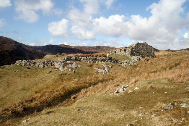 Ruined blackhouse at Stiomrabhaig The census of 1851 shows that the village consisted of 16 dwellings and supported a population of 81. By 1858 there were none. Clearances had been well underway in the area during the first half of the 19th century; many of them brutal and uncaring. The residents of Stiomrabhaigh were better placed of than most, having leases directly with the land owner. But when these expired, they accepted an offer of crofts in Leumrabhagh. Lewis was relatively prosperous right up until World War I, which put an end to the herring trade with Russia and Eastern Europe and in spite of the clearances, the increasing population put pressure on land. There were numerous requests to resettle Stiomrabhaigh, all of which were resisted by the landowners and it was not until 1921 when Lord Leverhulme abandoned his ambitious plan for Lewis that crofters returned to the township. Even the resettlement was marked with tragedy as two young men were drowned while transporting household goods from Calbost. These settlers were never officially recognized as crofters by the government; they received no help and no road was built to the township. Given the difficulties of living without facilities, over the next twenty years, a number of the families drifted back to Leumrabhagh. At the start of World War II only two families remained and by the end of the 1940’s, Stiomrabhaigh was once again deserted. Today there is much of the township to be seen; its ruined buildings, lazybeds and field walls standing in splendid isolation between the moor and the sea.